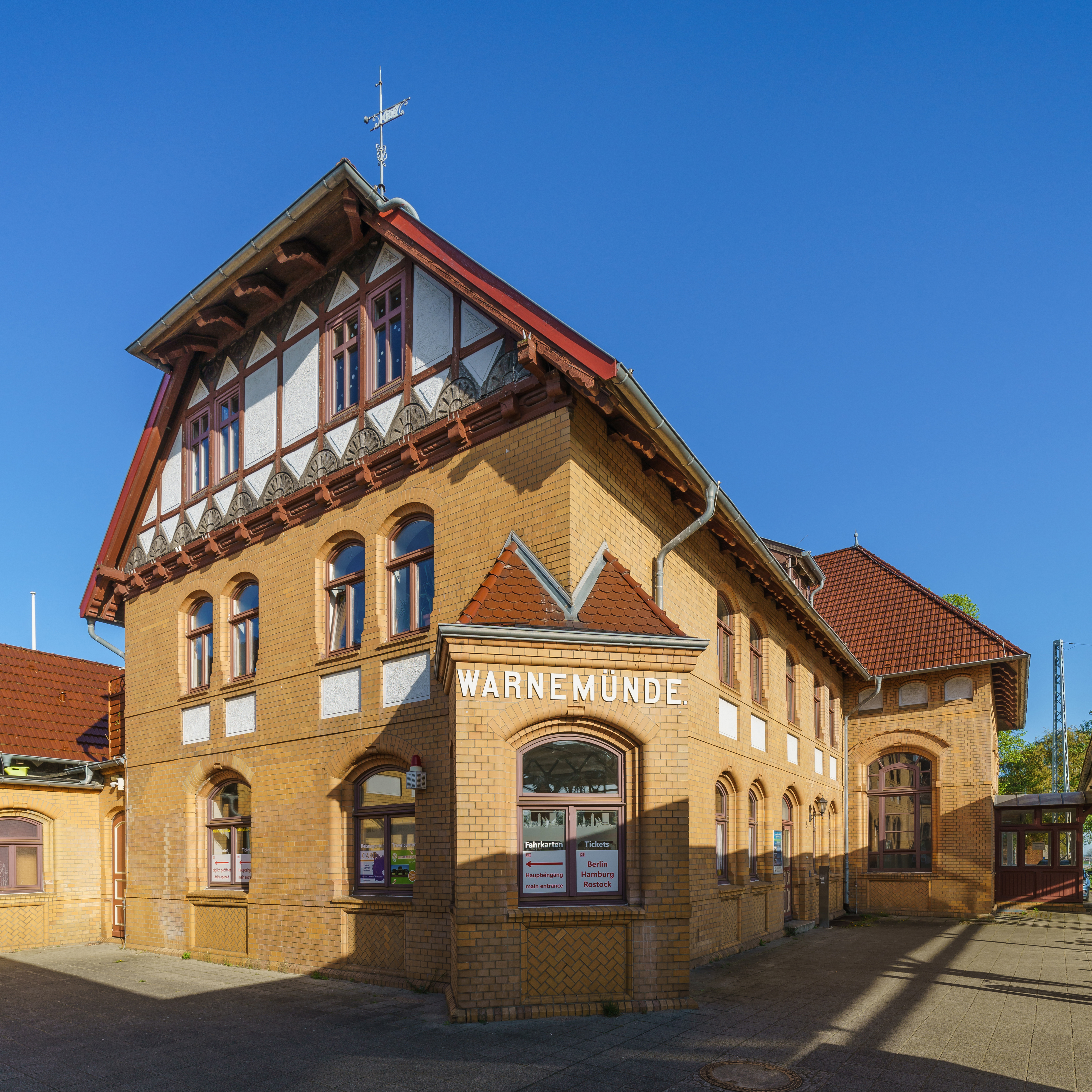 Railway station in Warnemünde, Rostock, Germany